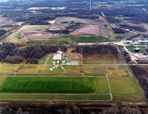 Aerial view of Niagara Falls Storage Site, Lewiston, New York